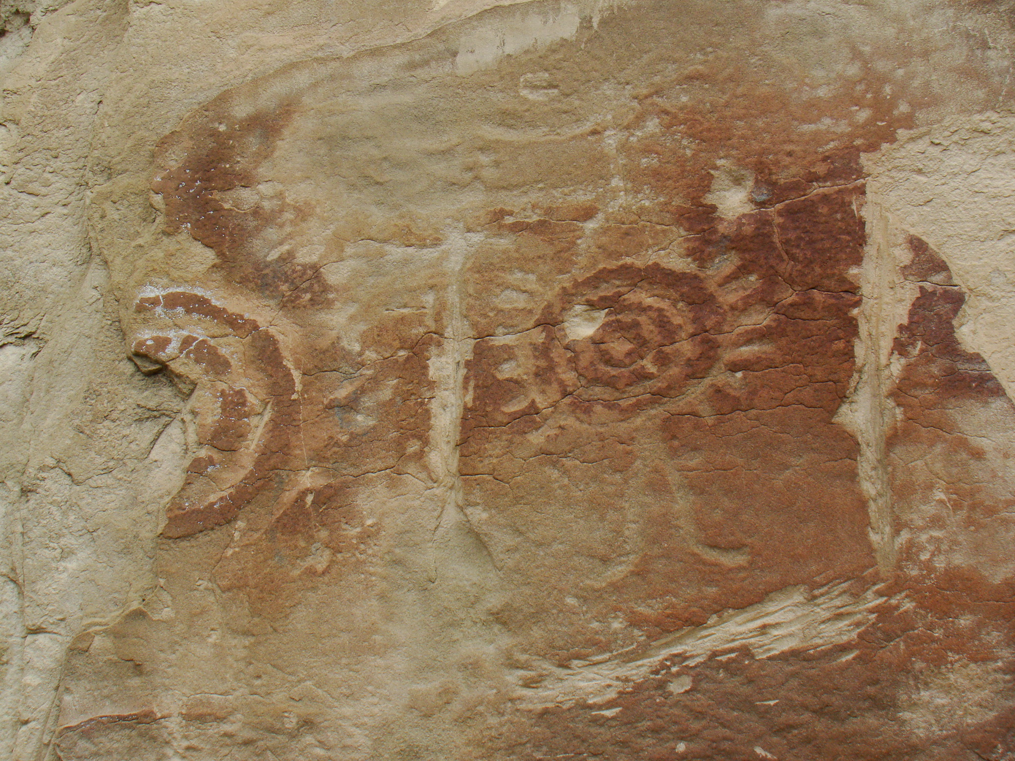 Cañon Pintado: This art can be found just a few miles outside of town on County Rd 23 in Canon Pintado. The Rangley Museum has designated it the Shield site.